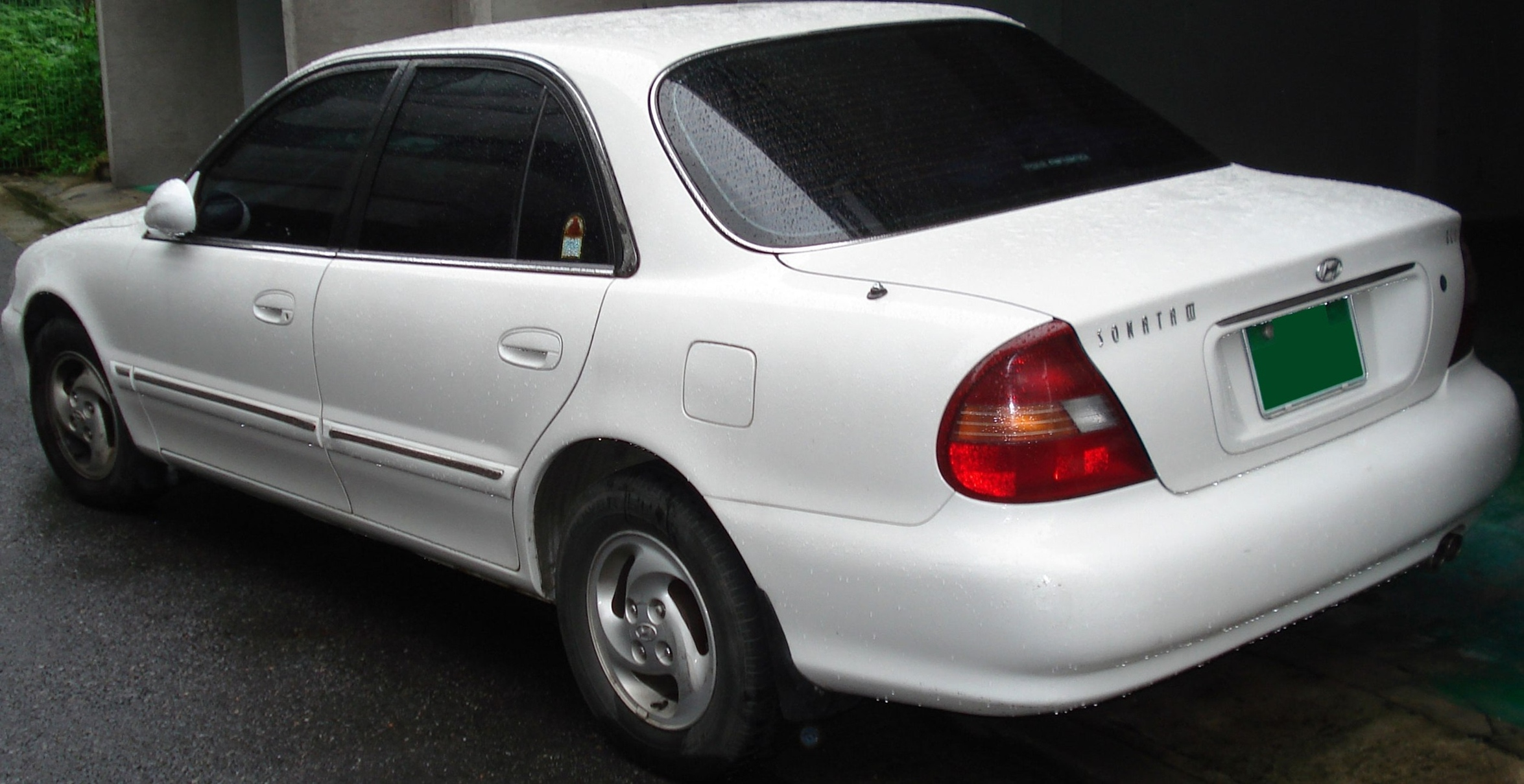 Hyundai Sonata Ⅲ